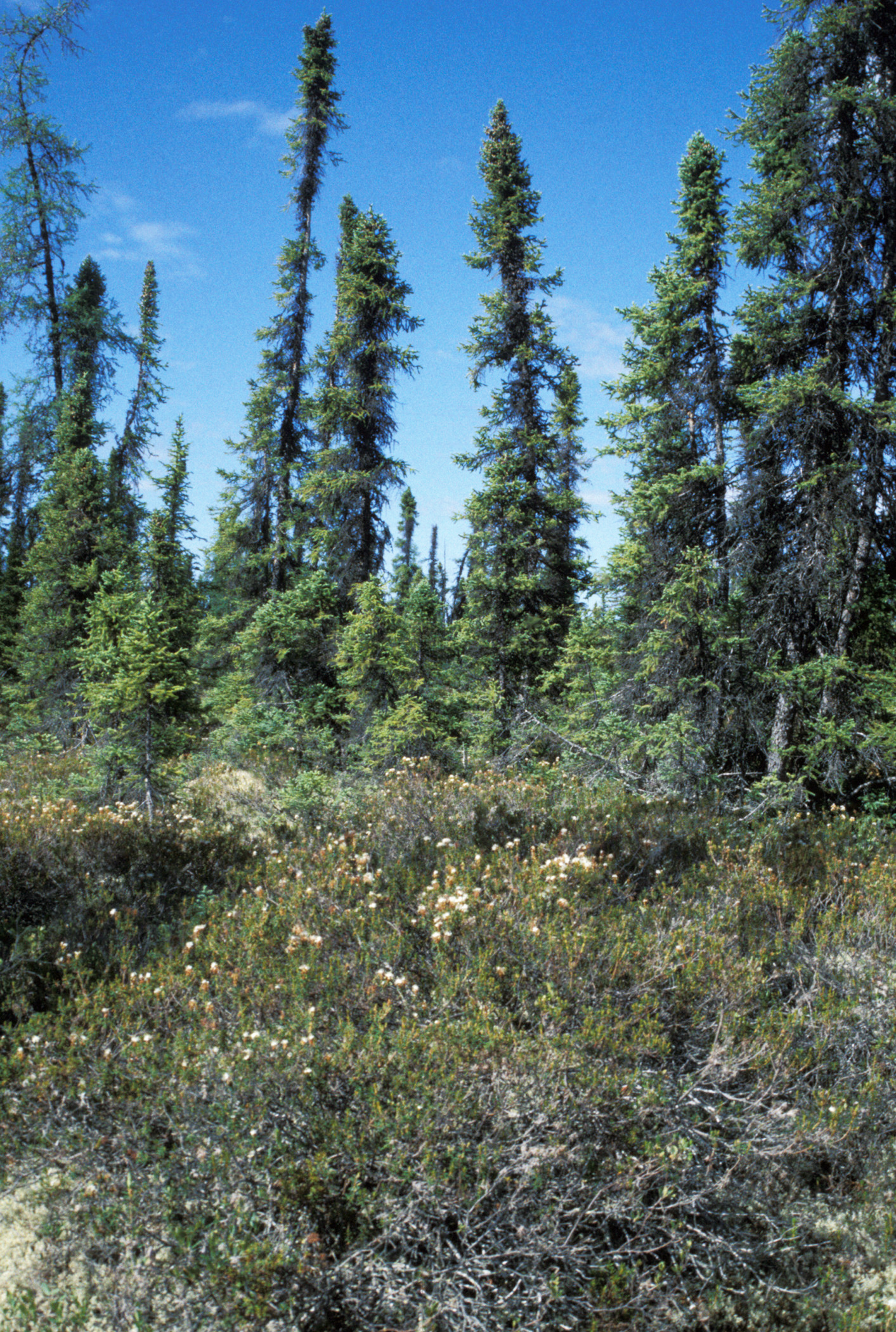 Black spruce (Picea mariana) forest and ledum